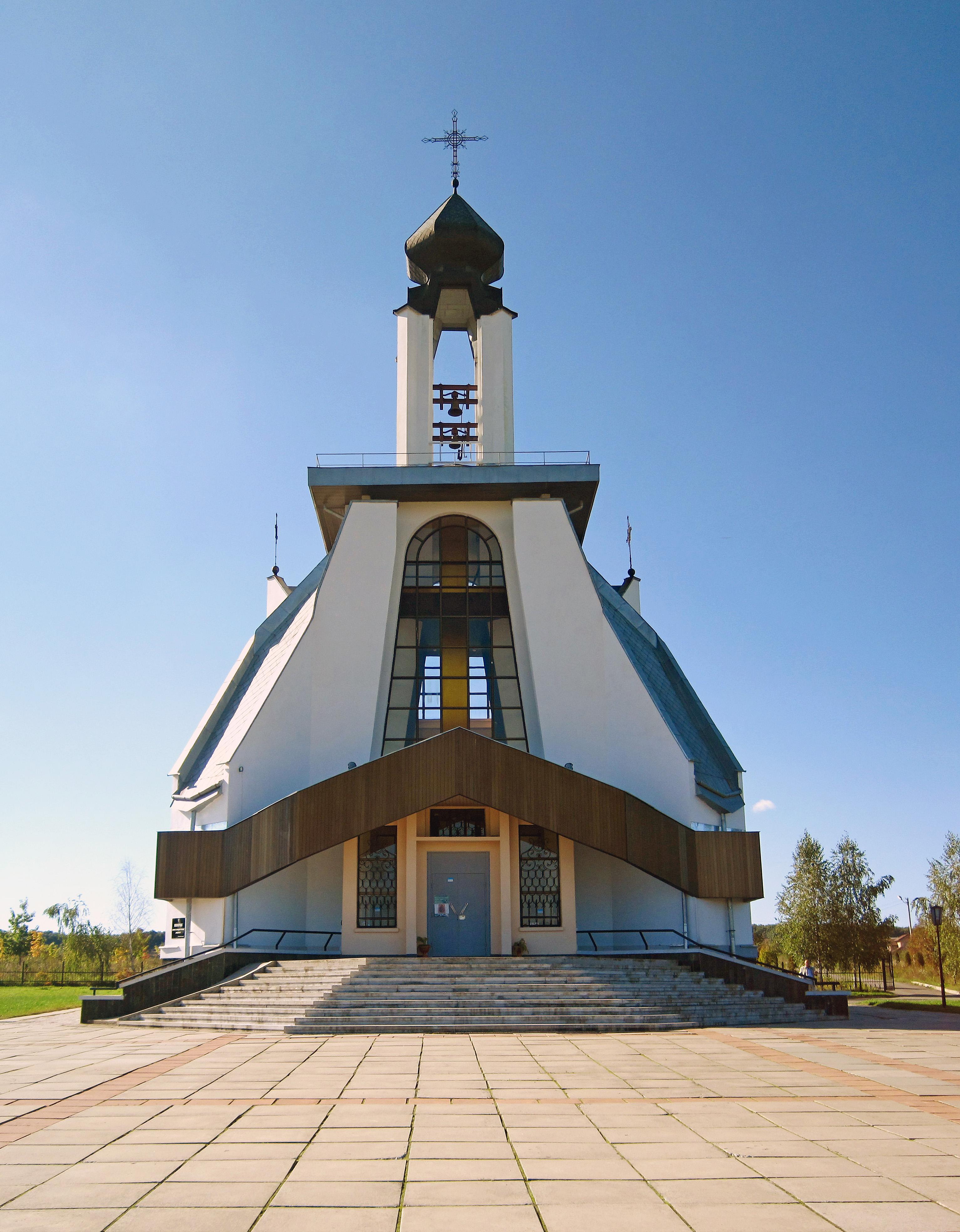 Dem'ianiv Laz is a mass burial site of victims of NKVD executions committed in the wake of the German occupation of Ivano-Frankivsk, Ukraine in 1941.